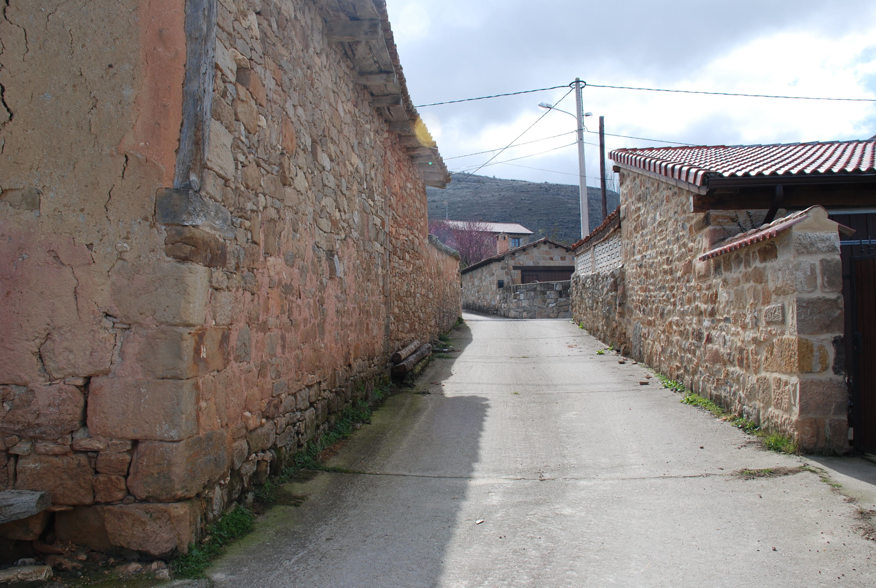 Barrio de San Pedro (Palencia, Castile and León).